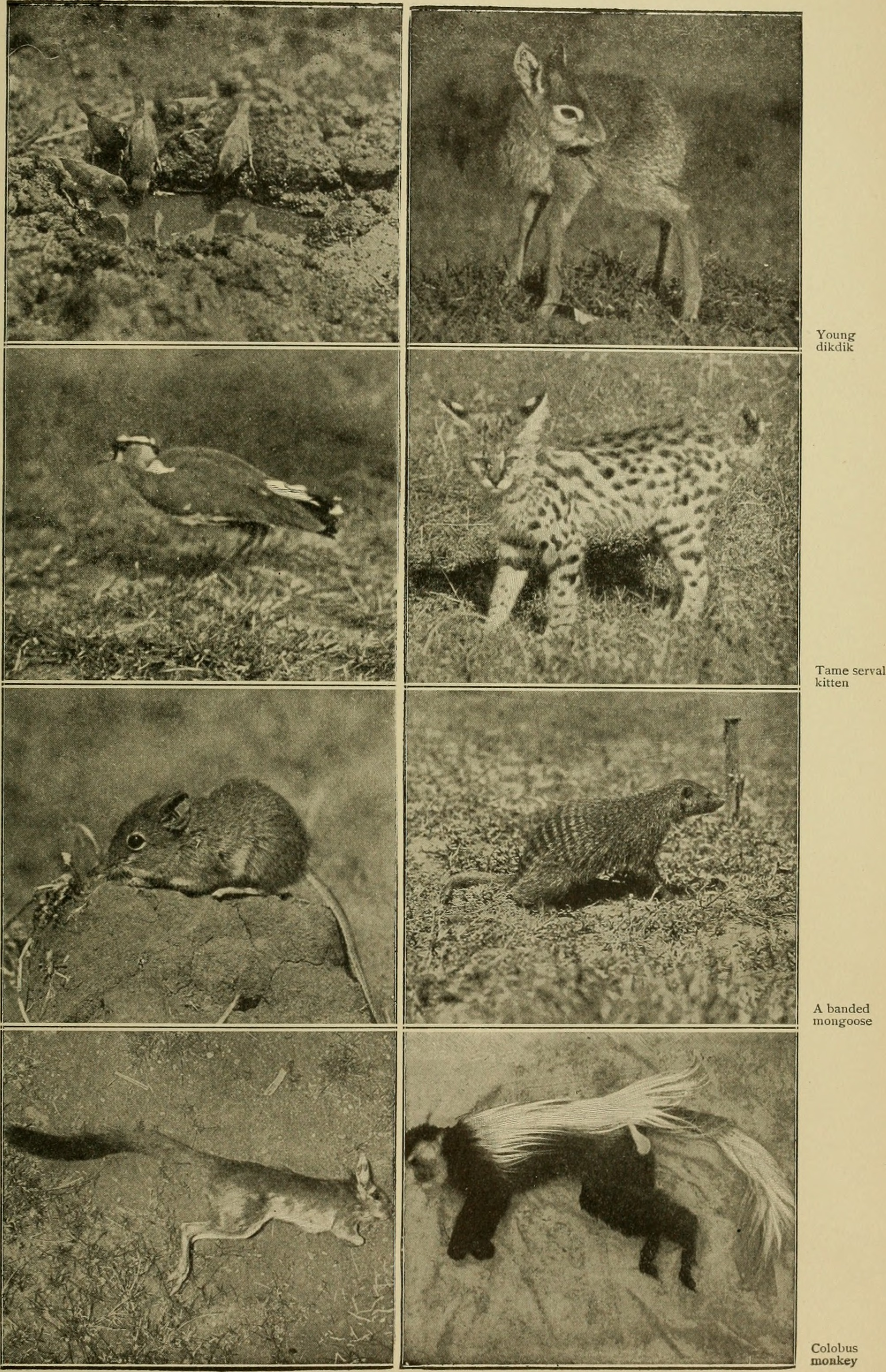 Title: African game trails Year: 1910 (1910s) Authors: Roosevelt, Theodore, 1858-1919 Subjects: Hunting Publisher: New York, C. Scribner's sons Text Appearing Before Image: ' Text Appearing After Image: Colobus moakey